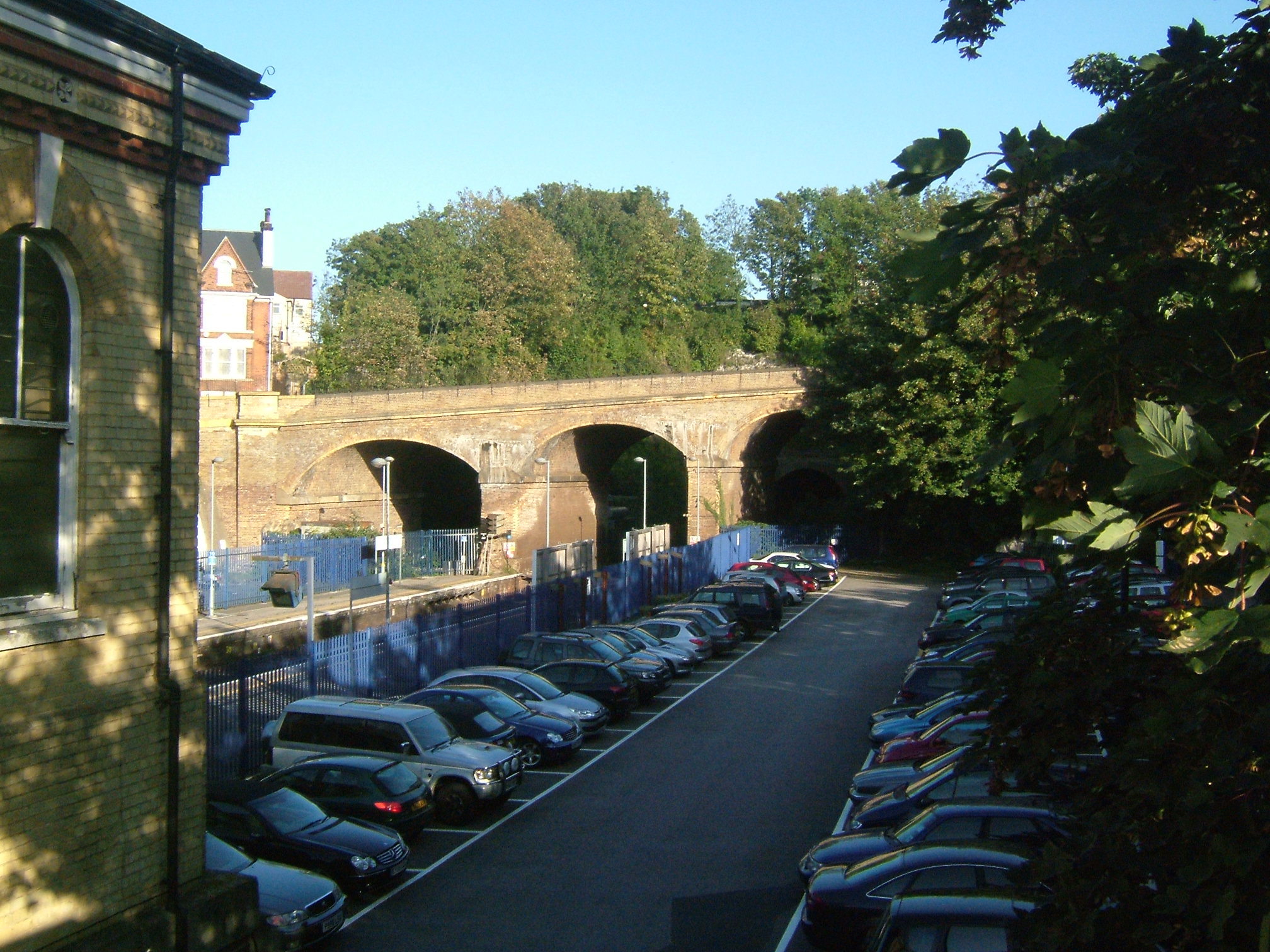 Chatham is a town in ,North Kent ,England. Chatham Station the portal of the Chatham tunnel - OpenStreetMap (Info)